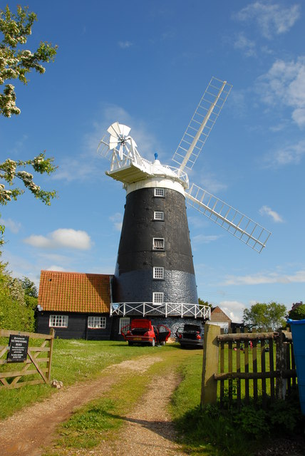 The Tower Windmill, Tower Road, Burnham Overy Staithe, Norfolk, England